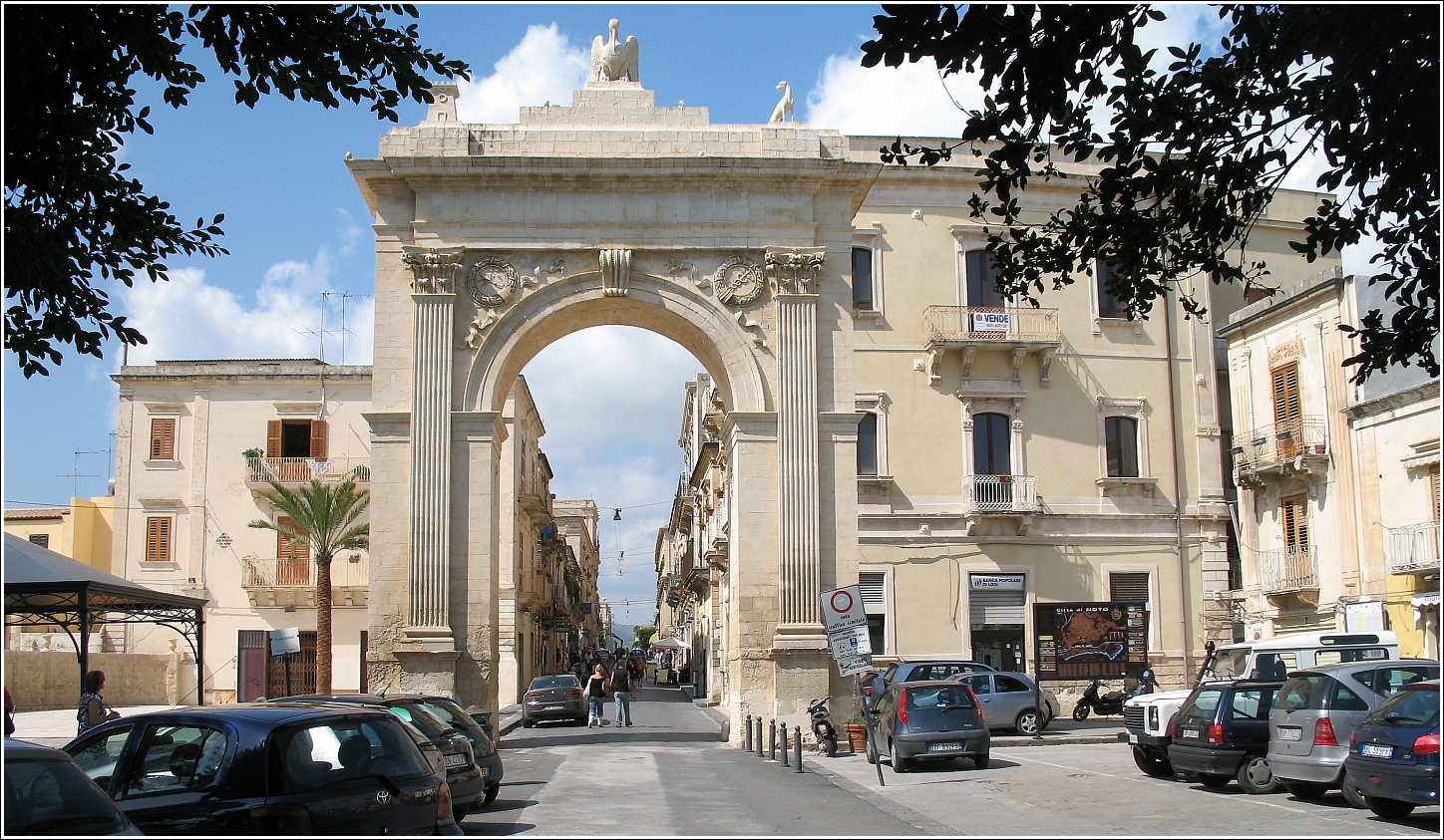 Door Reale